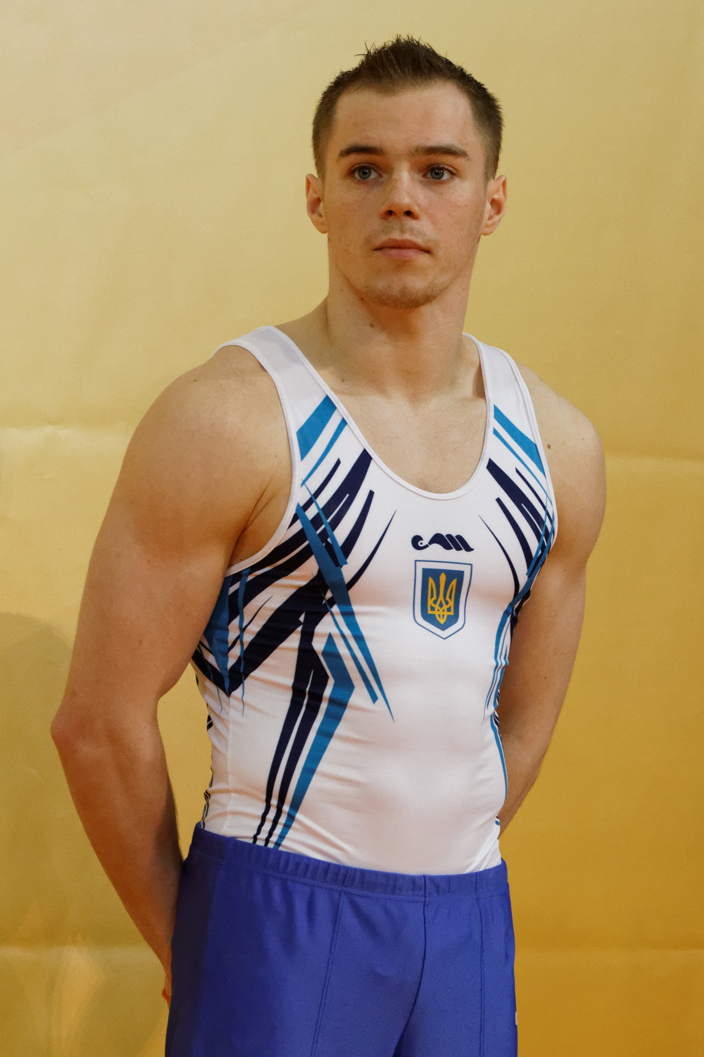 2015 European Artistic Gymnastics Championships.